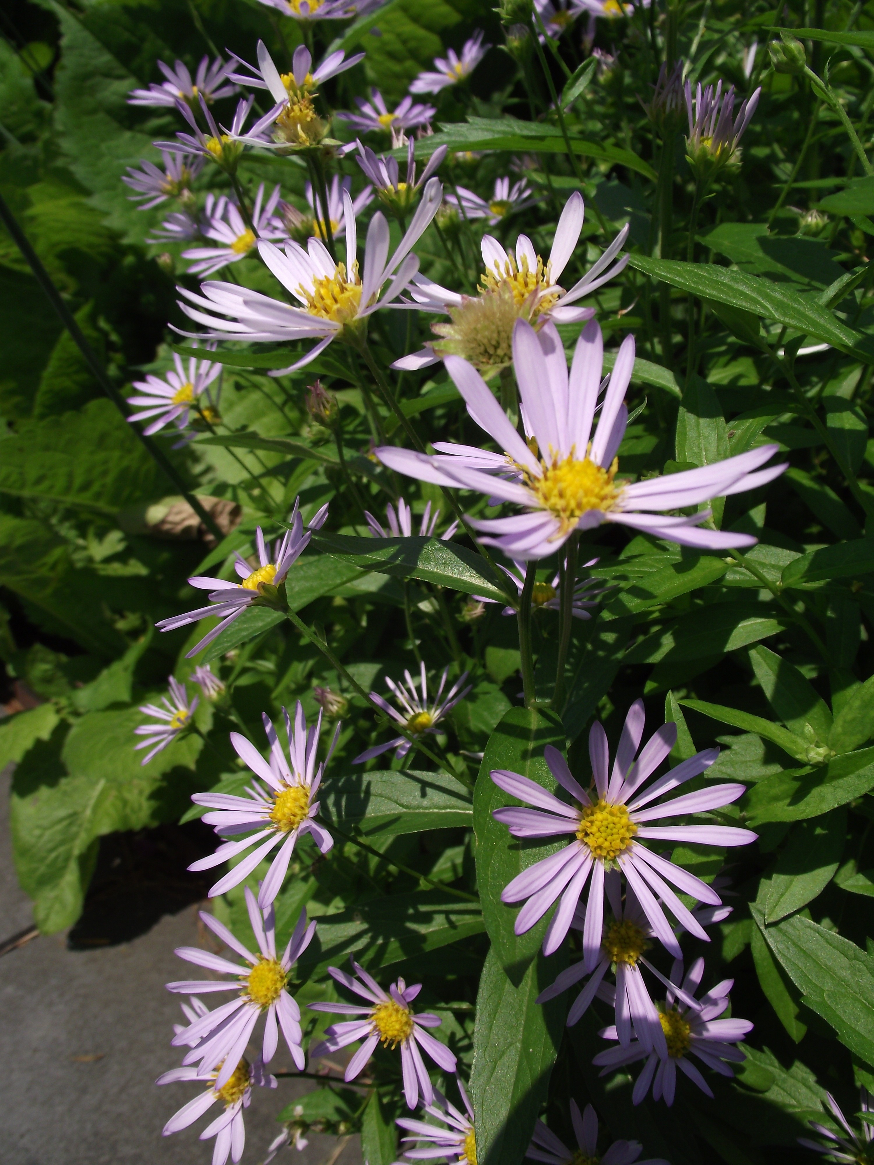 Boltonia asteroides var. latisquama 'Jim Crocker' at New York Botanical Garden, Bronx, NY, USA